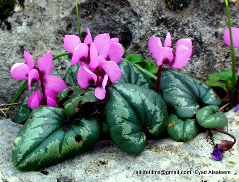 نبات برّي سوري يؤكل